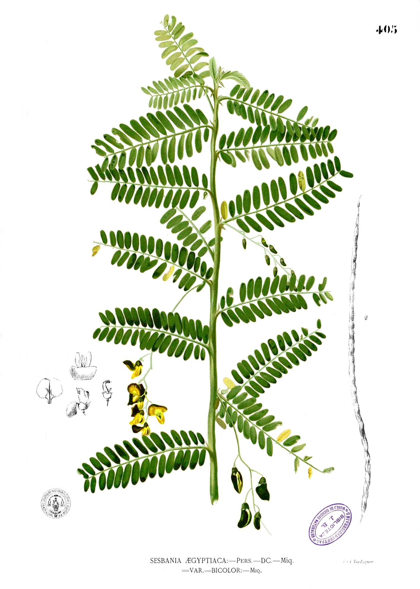 Plate from book